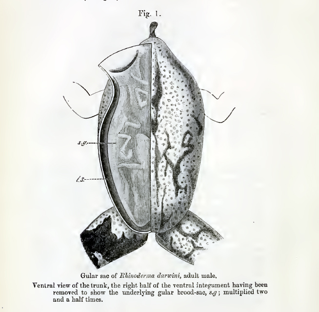 Proceedings of the Zoological Society of London 1888 p231